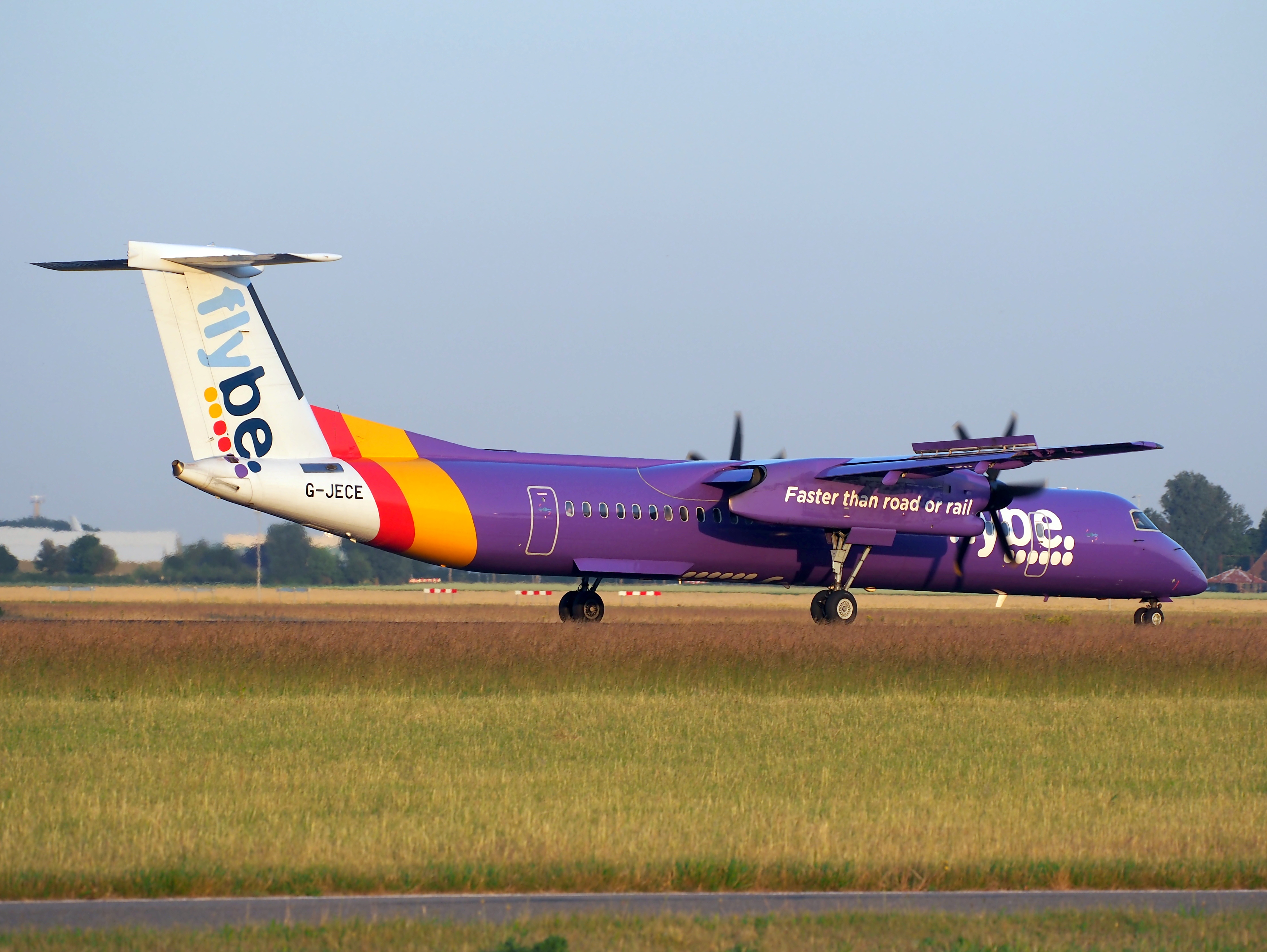 Bombardier Dash 8-Q402, Flybe landing at Schiphol (AMS - EHAM), The Netherlands.